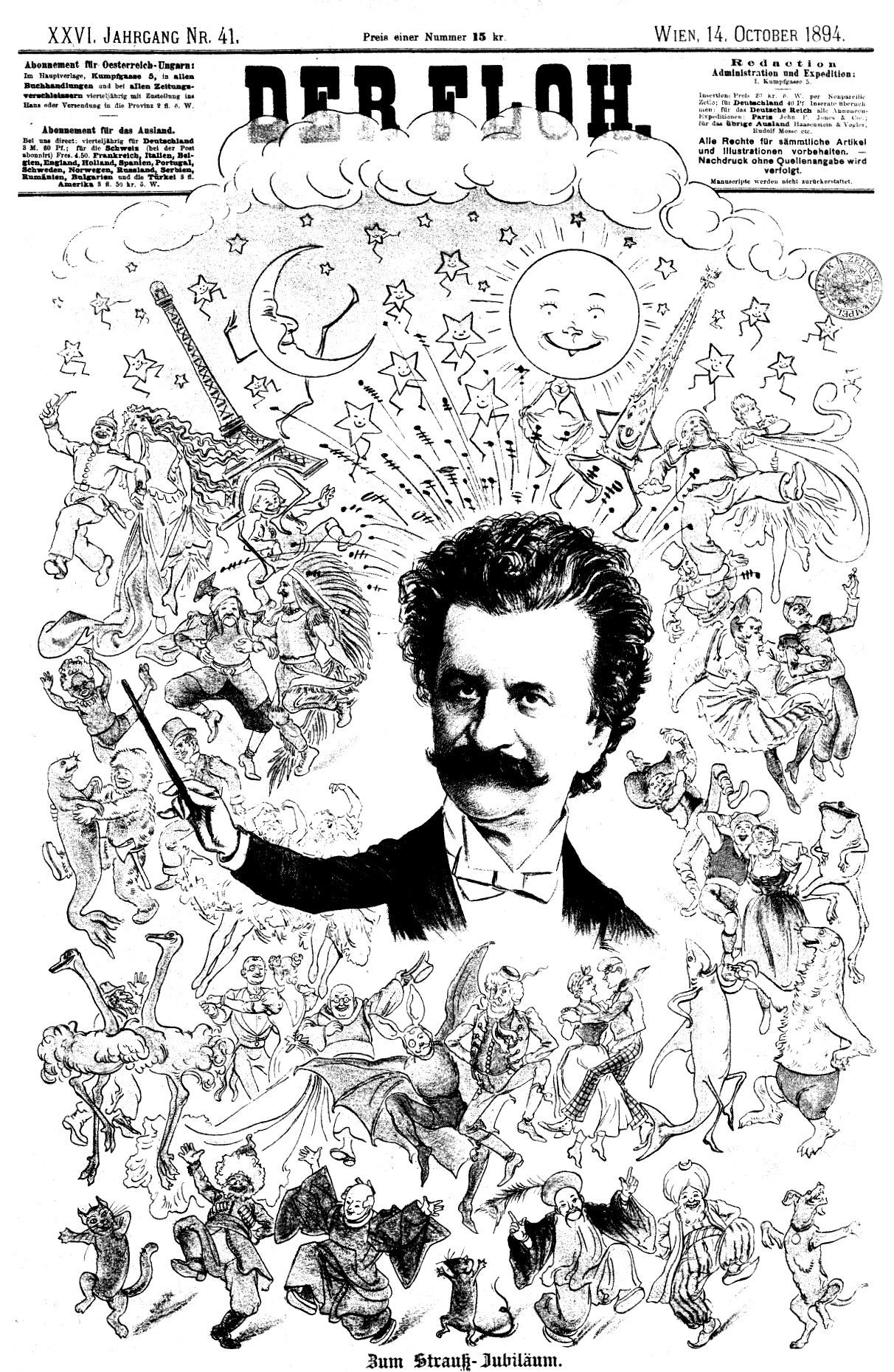 The cover of the Austrian magazine "Der Floh" by October 14, 1894, dedicated to the Strauss of anniversary.